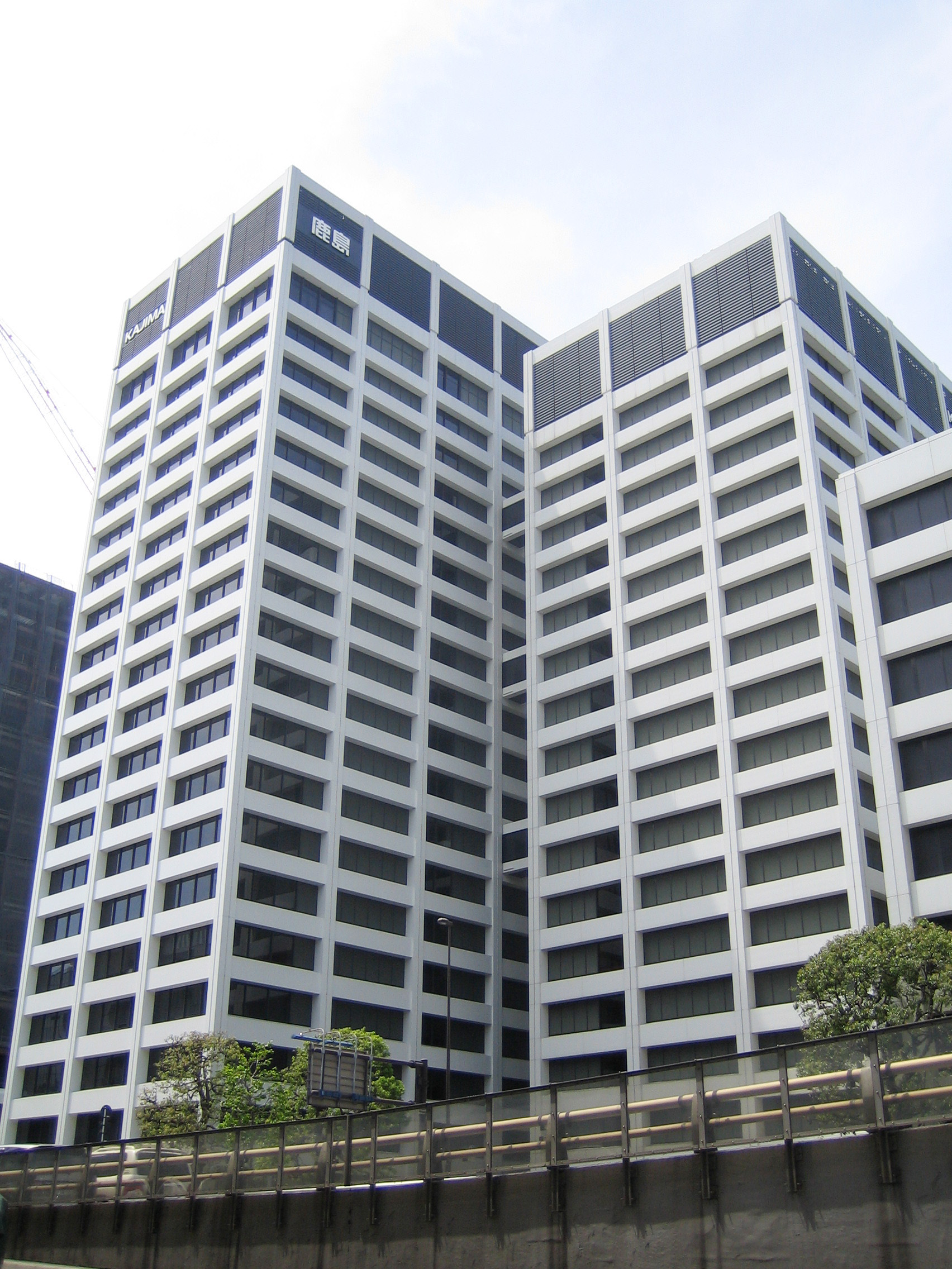 Headquarters of Kajima Corp. (鹿島建設株式会社), in Minato, Tokyo, Japan